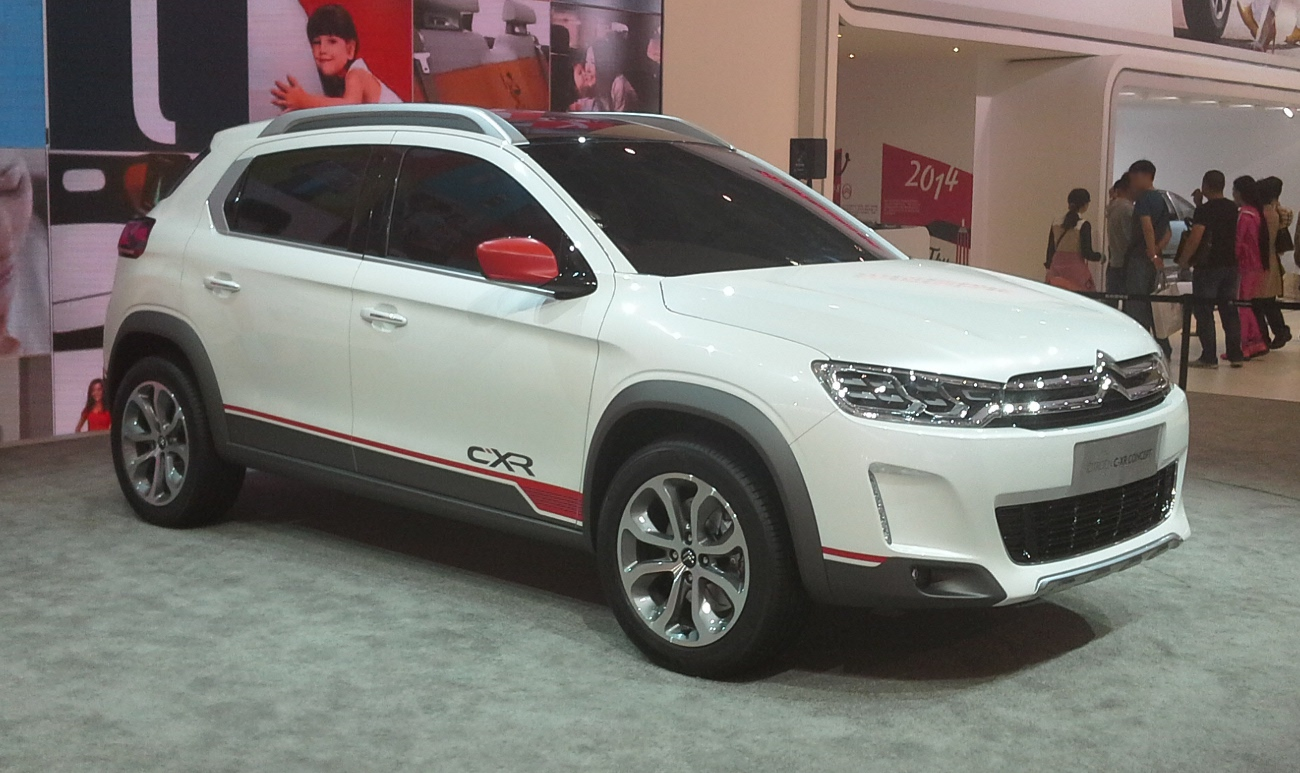 Citroën C-XR Concept photographed at the Auto China 2014, Beijing, China.